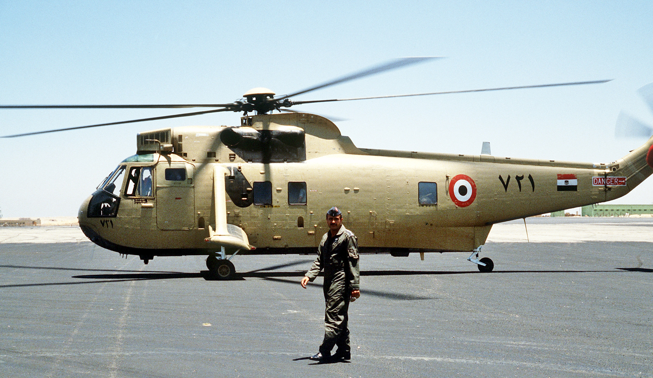 An Egyptian Westland Commando Mk.1 helicopter on 16 June 1980.